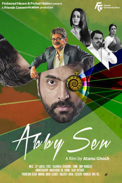 Poster